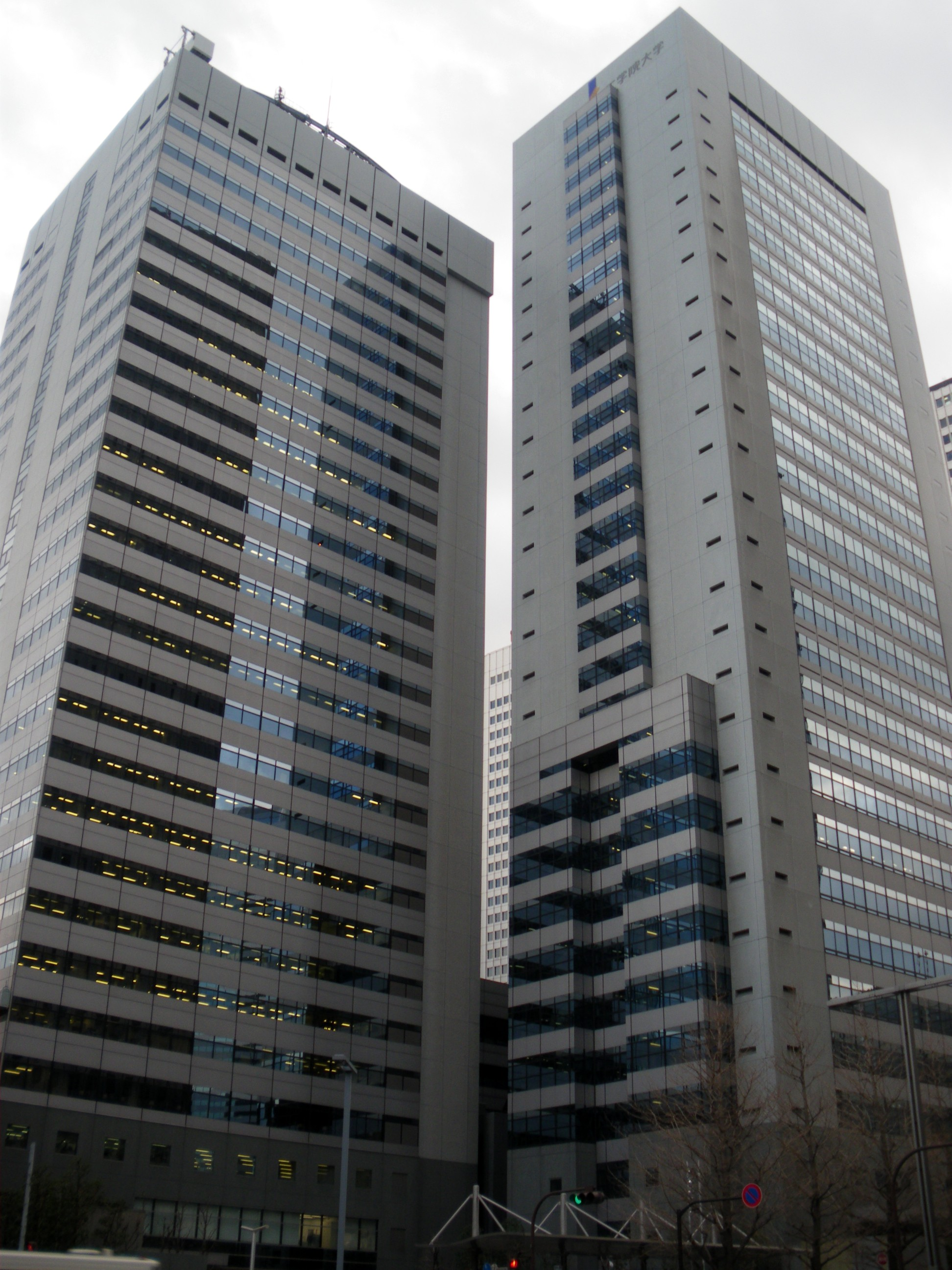 photo of Kougakuin University and stec johoh(information）building ,one of the skyscrapers in Shinjuku,Tokyo,Japan.